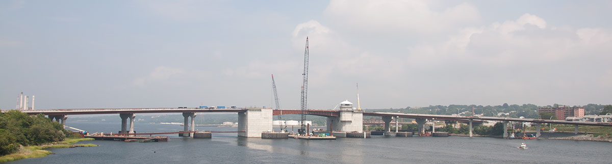 The Veterans Memorial Bridge over the Taunton River between Somerset, MA, USA and Fall River, MA, USA